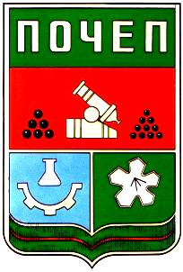 Blazon Pochep, Bryansk region